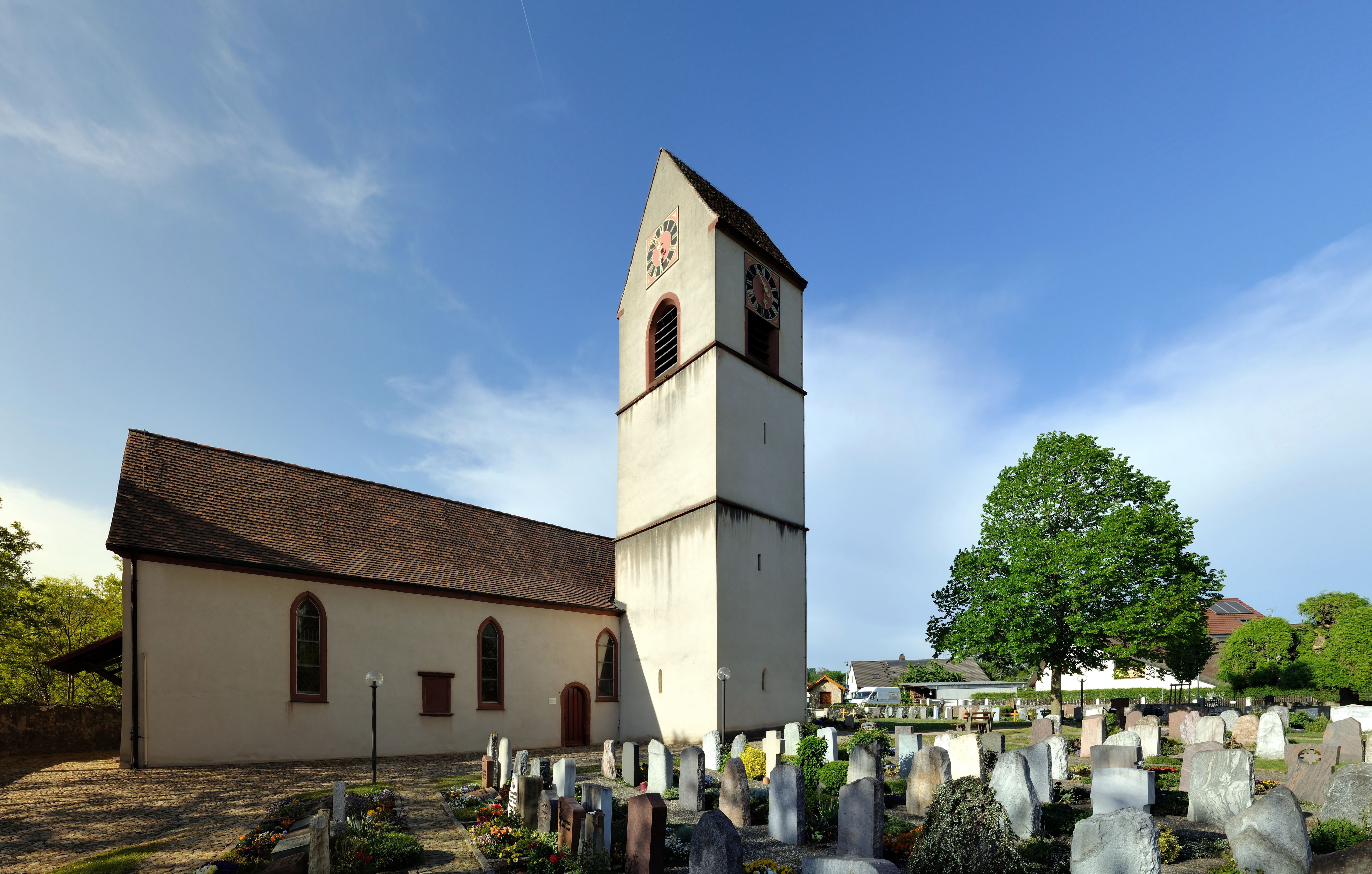 Efringen: Protestant Church